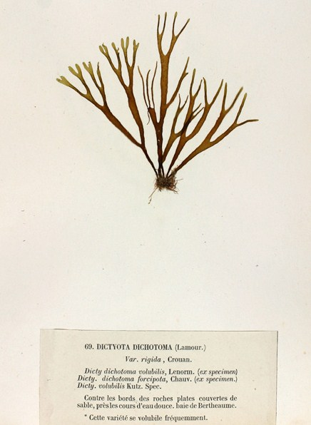 « Dictyota dichotoma var. rigida » = Dictyota dichotoma